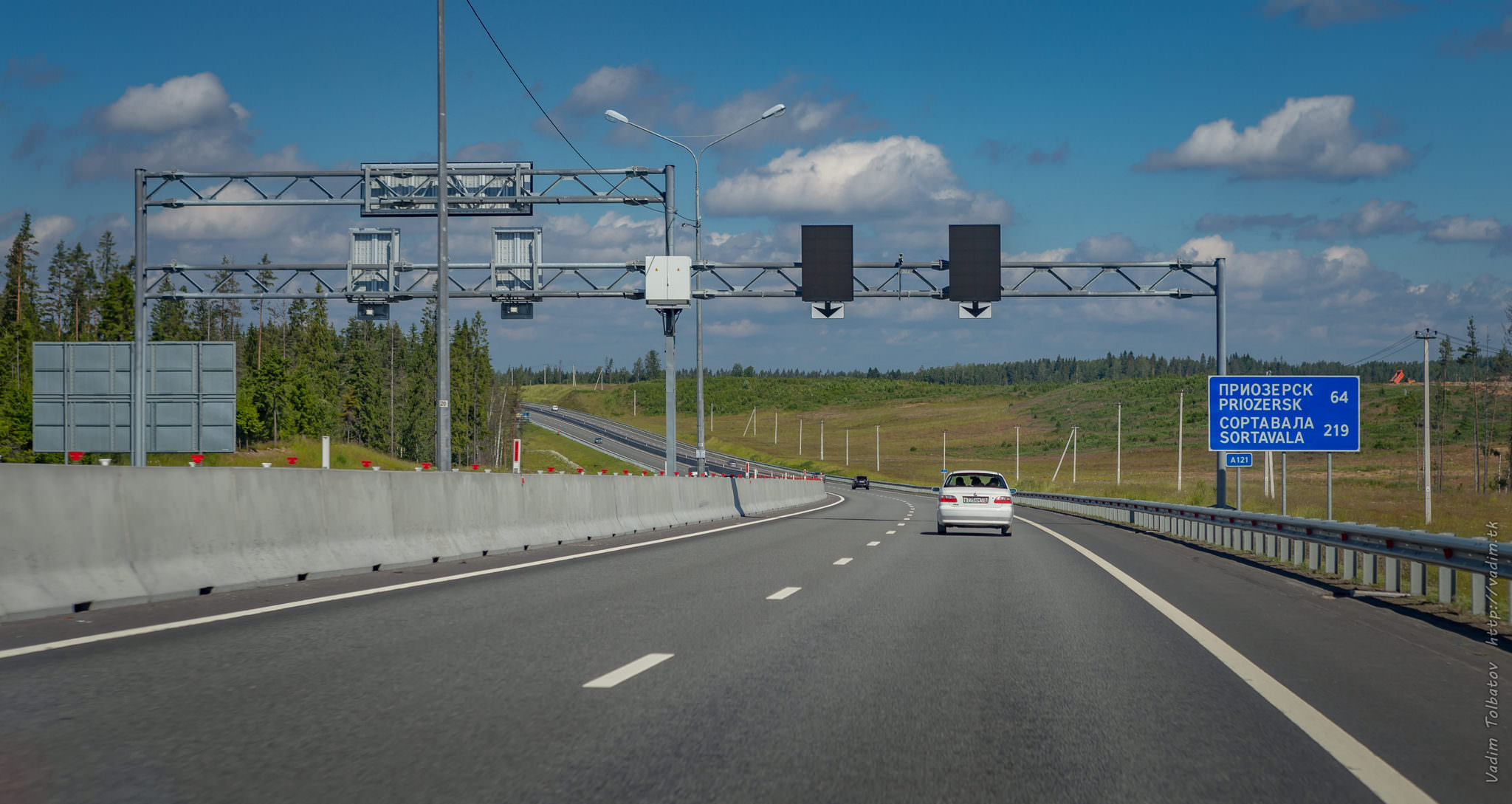 Road A-121 "Sortavala", Russia